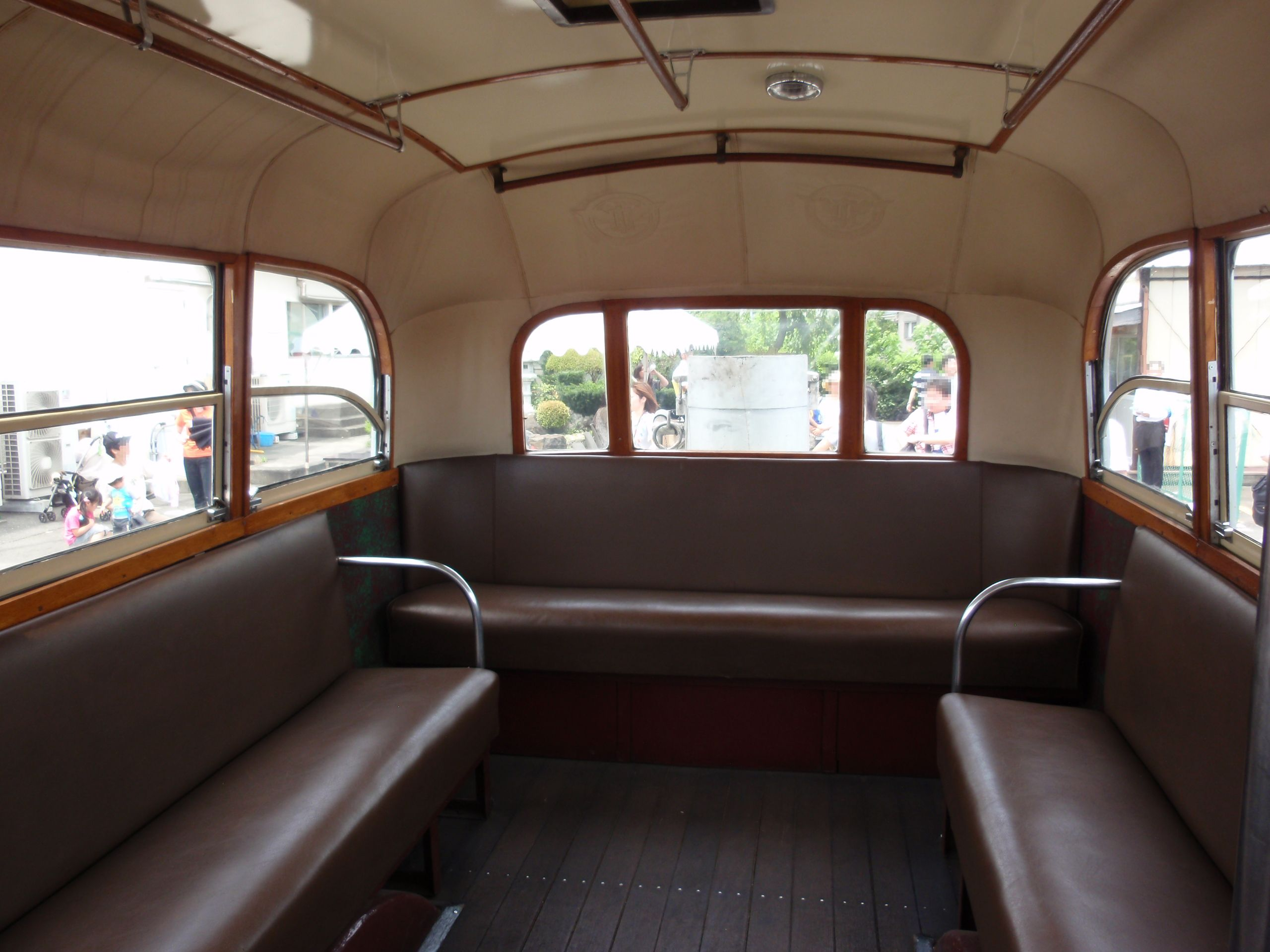 Inside of Toyota Motor Co., Ltd., "Maki Bus"